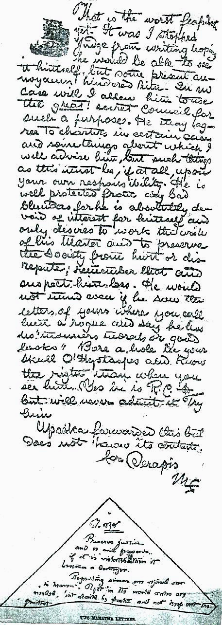 Facsimile of one of the Mahatmas' Letters, signed Serapis